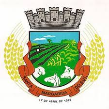 Coat of arms of the city of Santa Margarida do Sul, Rio Grande do Sul, Brazil.